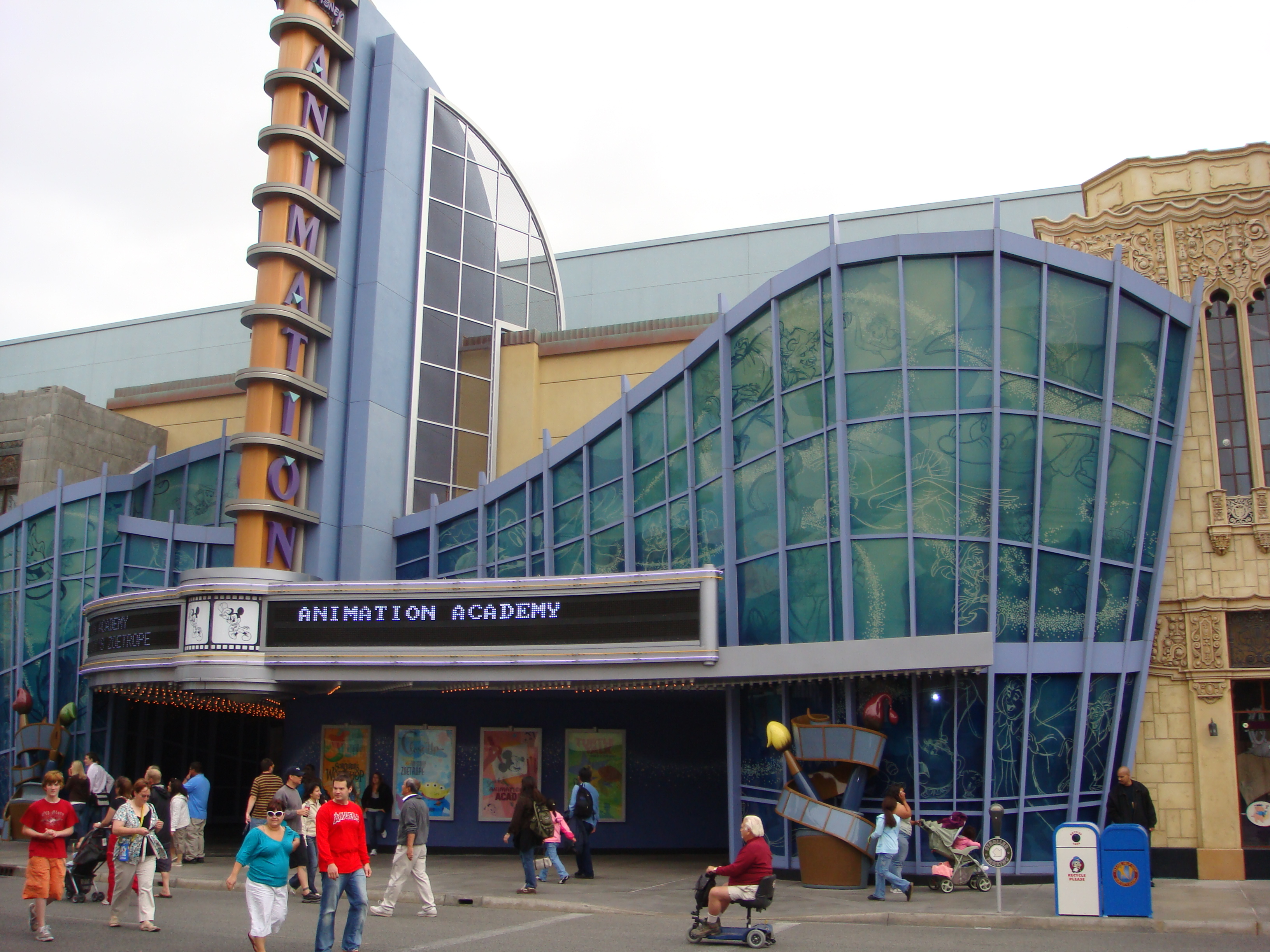 California Trip May 2008 751